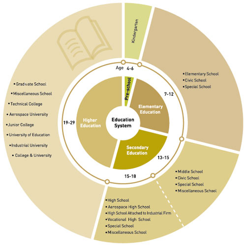 The school system in the Republic of Korea consists of one to three-year pre-schools and kindergartens, six-year elementary schools, three-year middle schools, three-year high schools, and four-year colleges and universities, which also offer graduate courses leading to Ph.D. degrees. There are also two- to three-year junior colleges and vocational colleges. Elementary schooling is compulsory with an enrollment rate of nearly 100 percent. Three more years of compulsory middle school education have been implemented nationwide since 2002. Although preschool education is not yet compulsory, its importance has been increasingly recognized in recent years. Preschool education is regarded as very important in terms of helping pull up the low birth rate, resolving social polarization, and allowing a greater number of women to work outside the home.